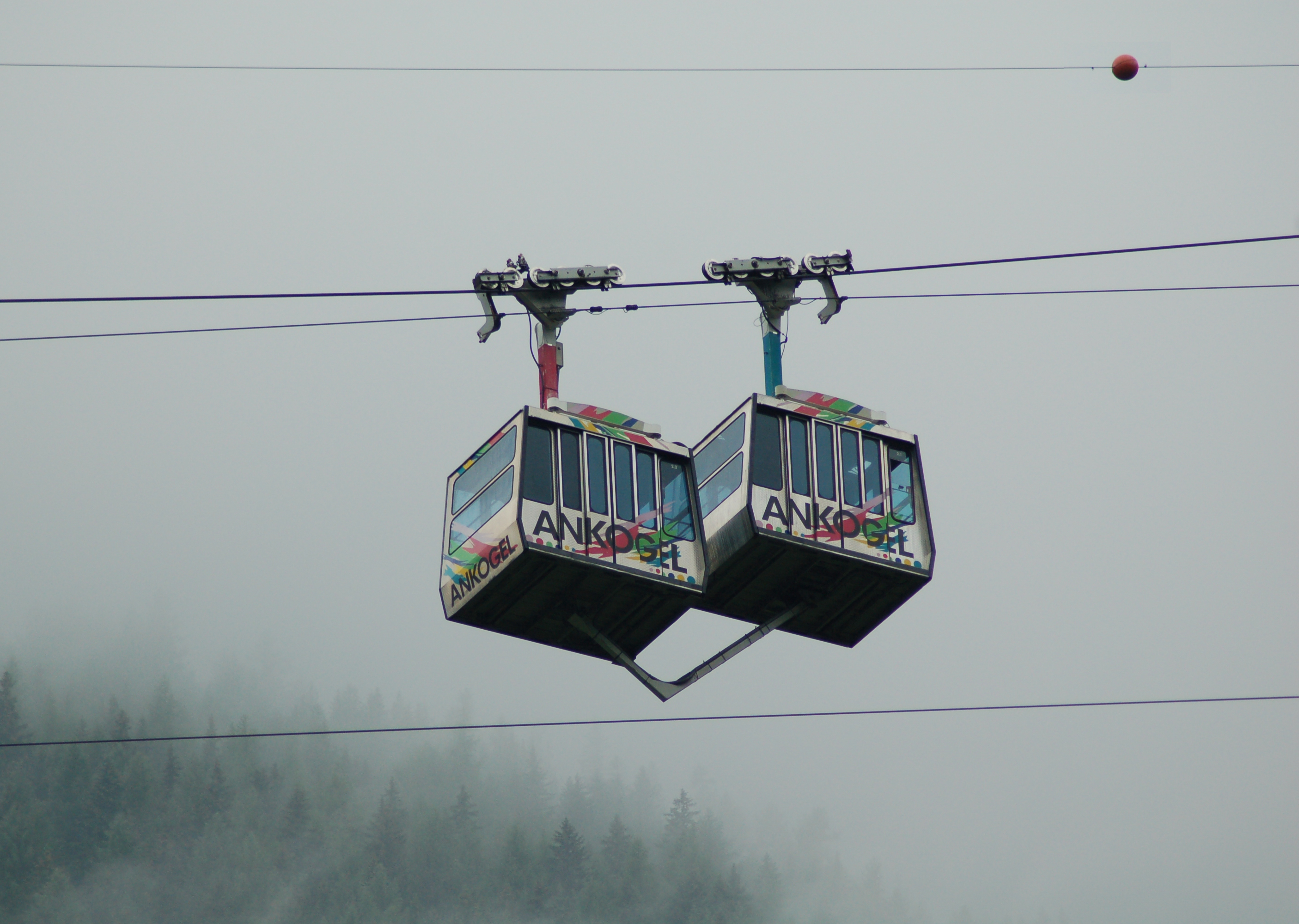 Cableway to Ankogel, Hannoverhaus. Mallnitz, Carinthia, Austria